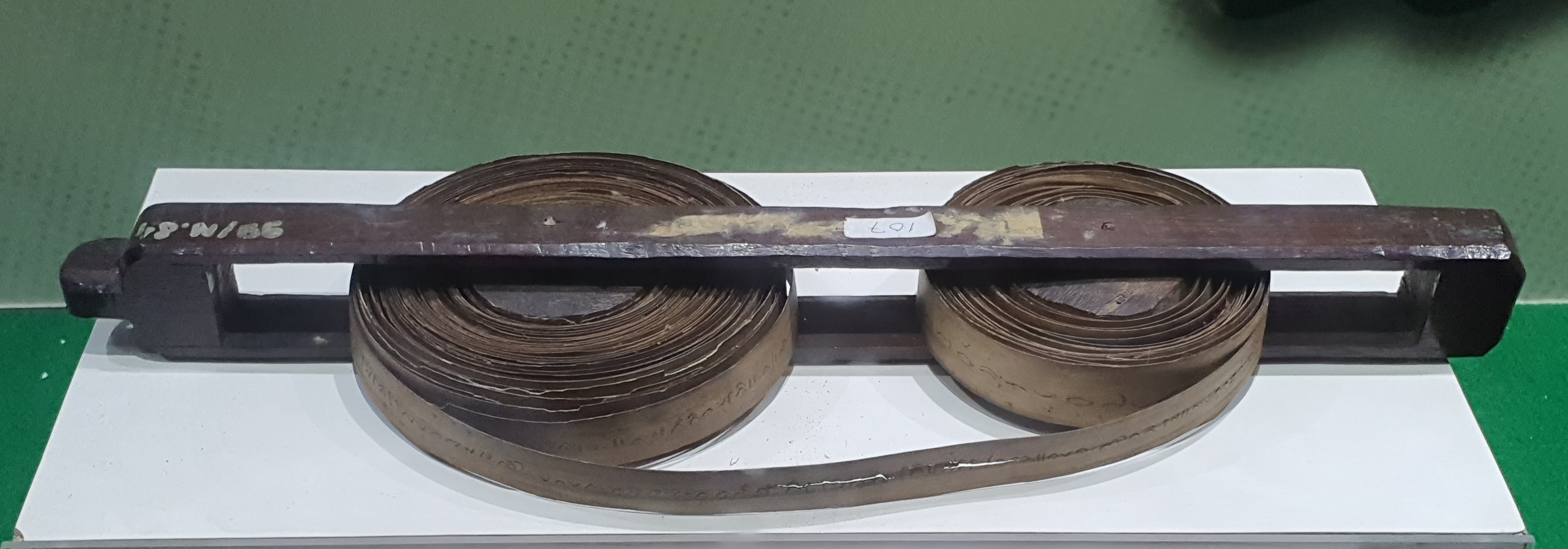 A Lontara scroll whose shape resembles that of a tape recorder. Collection of La Galigo Museum, Makassar, Indonesia.